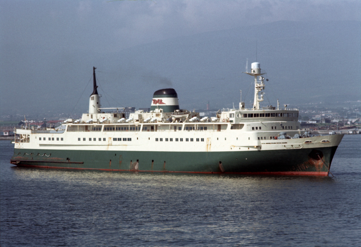 The Japanese National Railways train ferry between Aomori and Hakodate MS TAISETSU MARU2 anchoring in Hakodate port